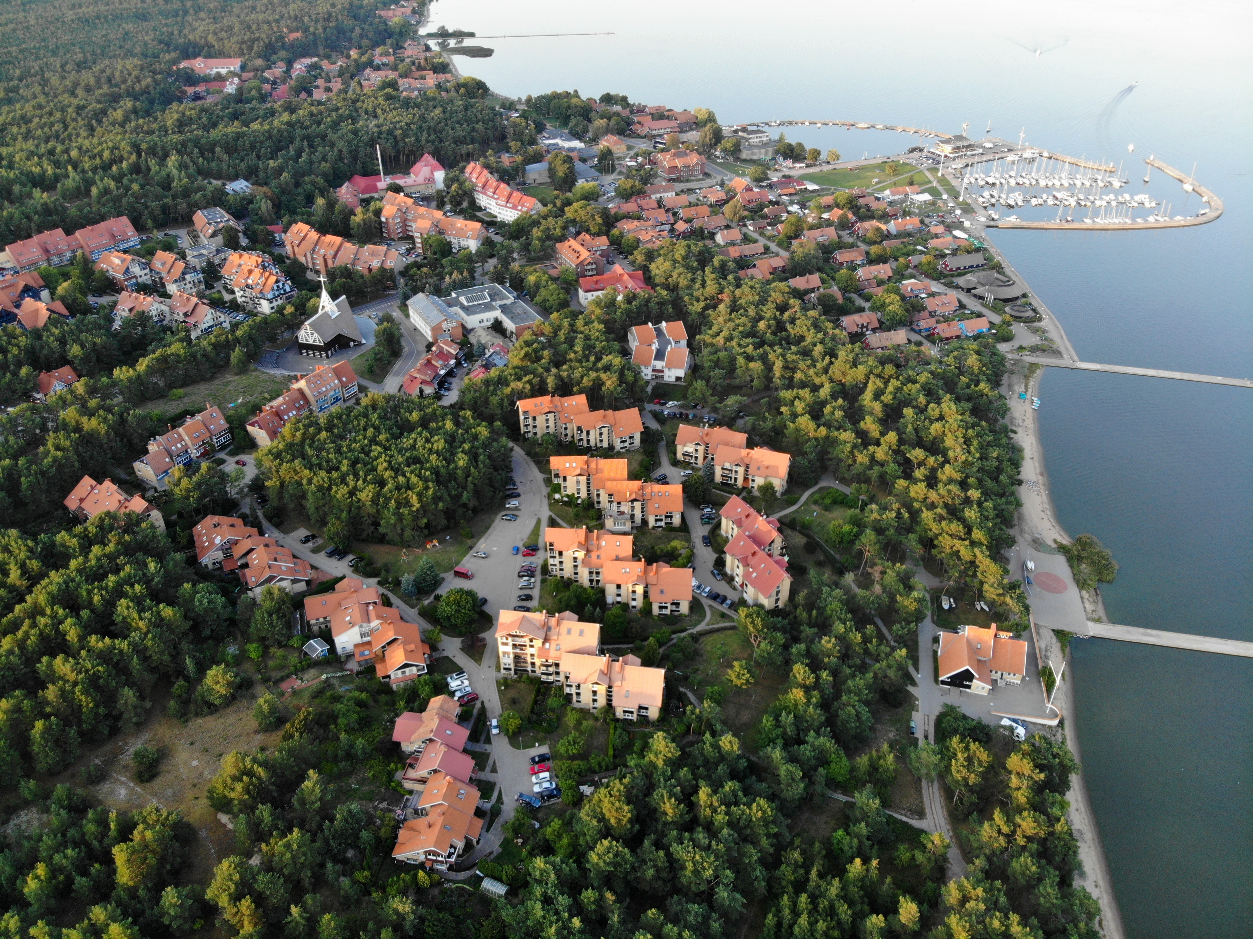 Bird's-eye view of town Nida (Neringa Municipality, Lithuania).